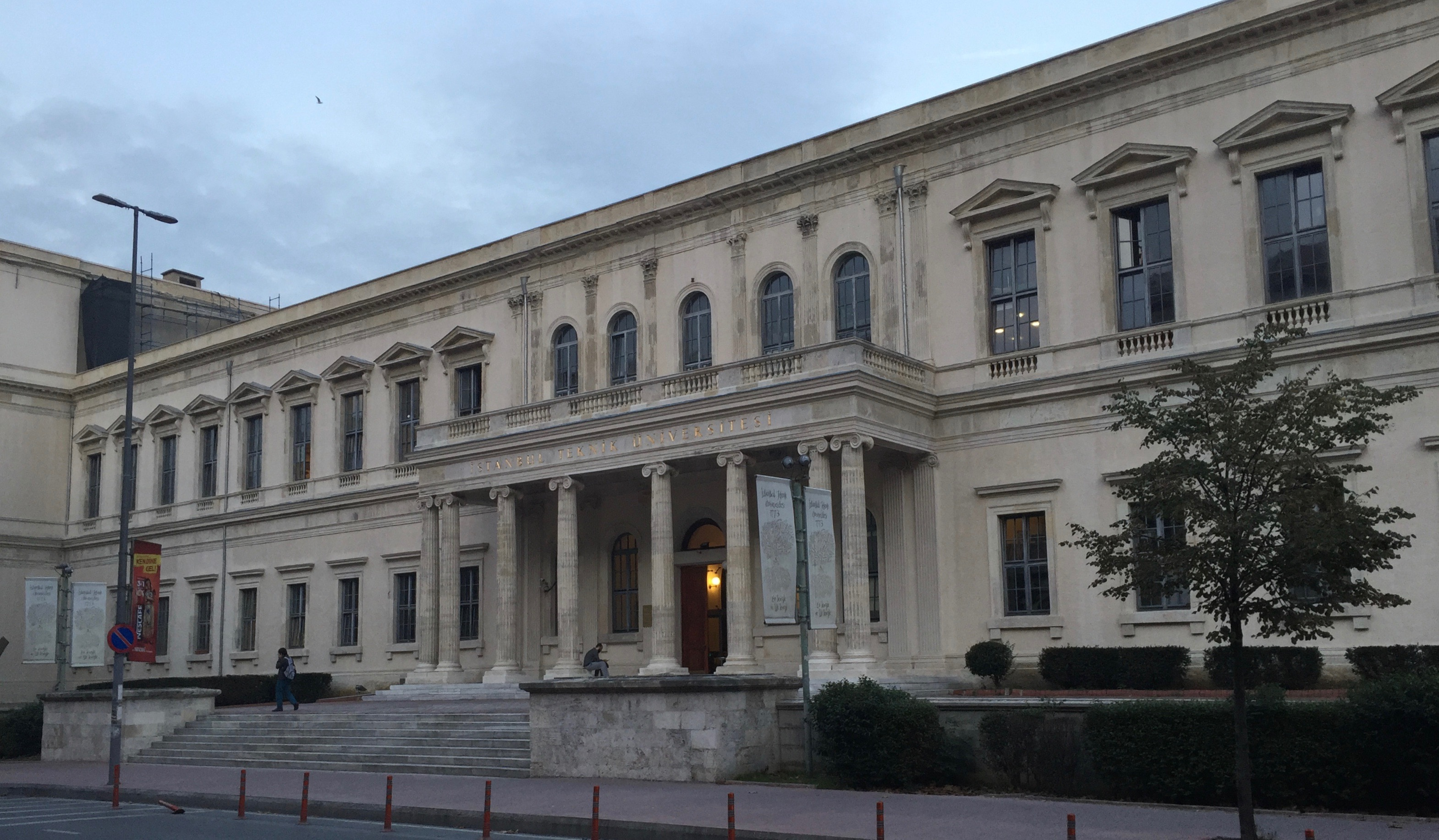 Istanbul Technical University School of Architecture